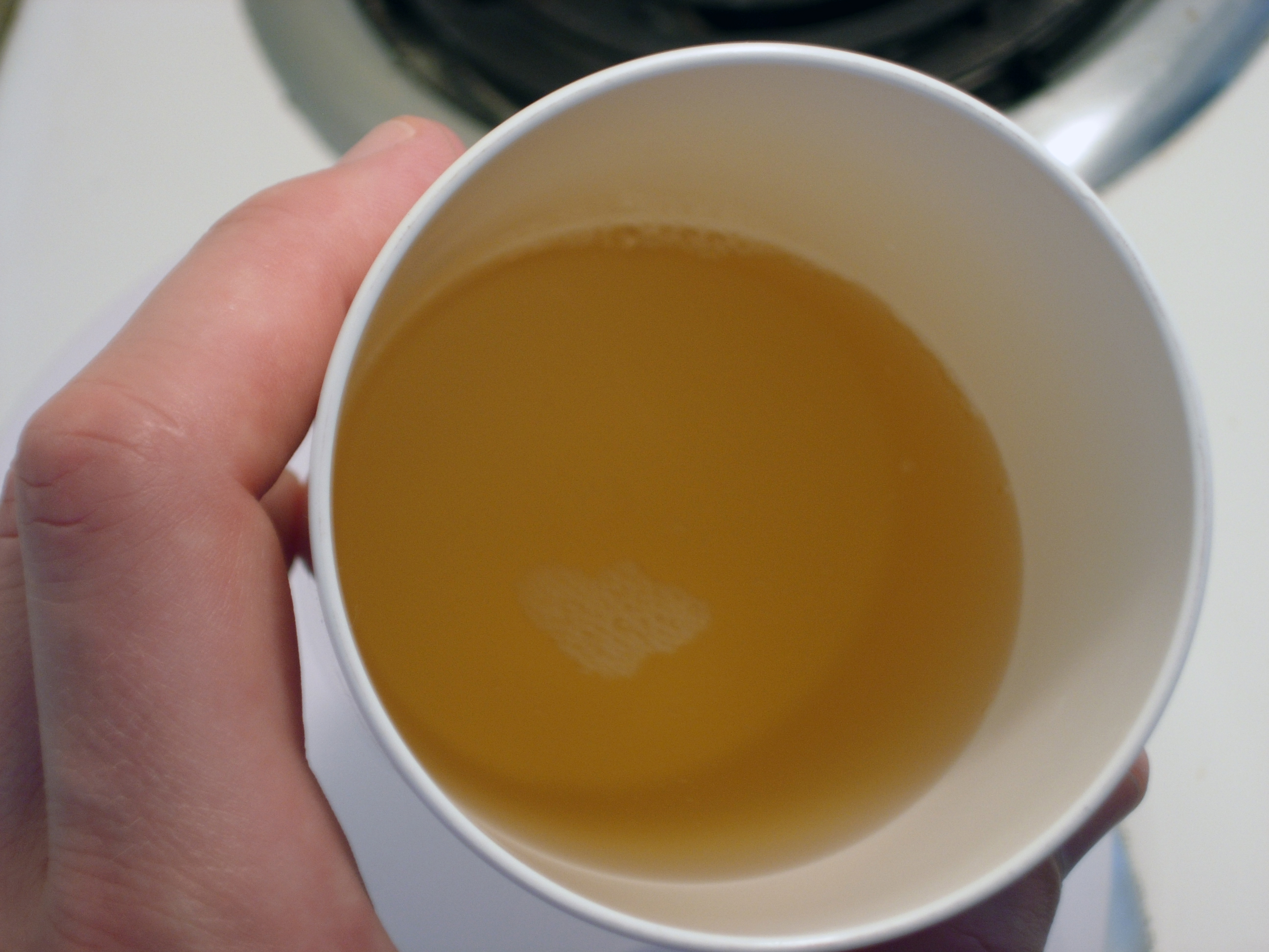 A cup of Trader Joe's brand expeller-pressed roasted walnut oil, produced in California. Photo taken in the United States, with an E5200 digital camera.